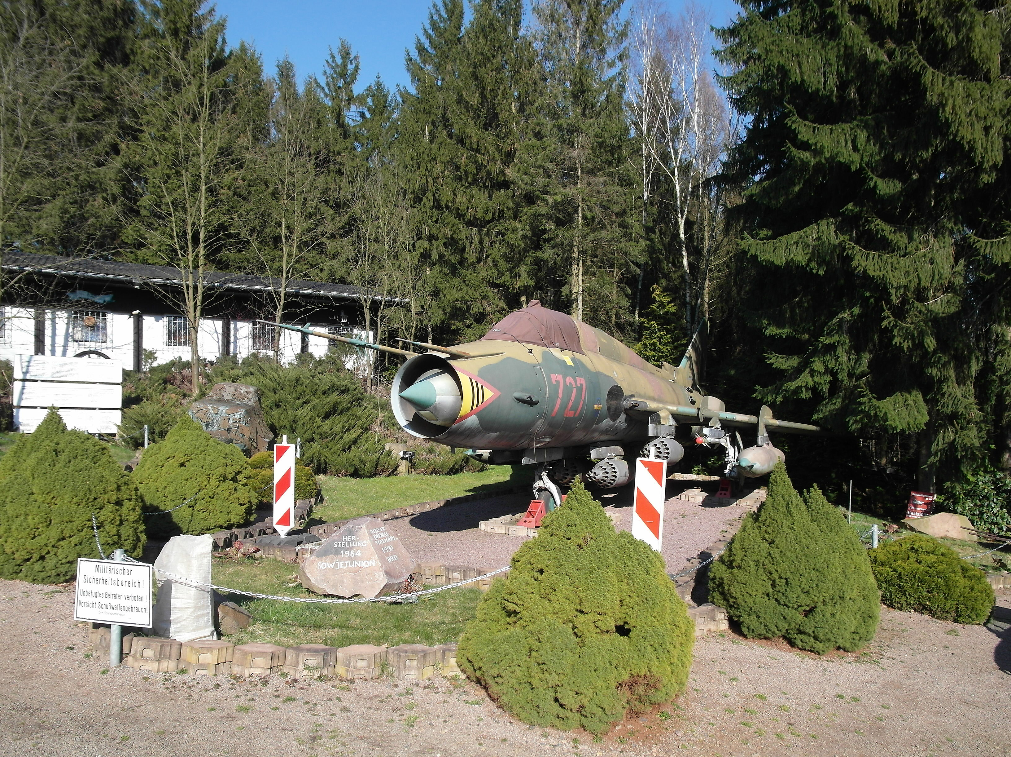 19.03.2015 01683 Neutanneberg (Tanneberg zu Klipphausen): Sowjetisches Su-22-Jagdflugzeug auf dem Gelände der Triebischtalbaude. Wilsdruffer Str. 61 [SAM9158.JPG]20150319900DR.JPG(c)Blobelt